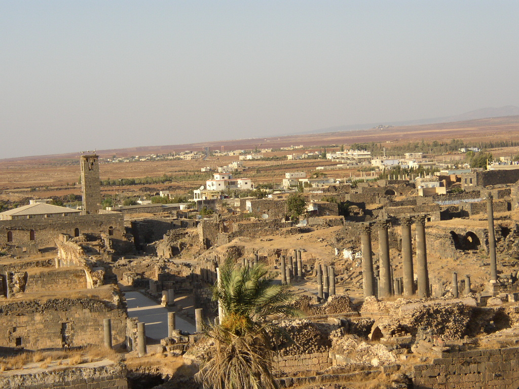 Ancient City of Bosra (Syrian Arab Republic)